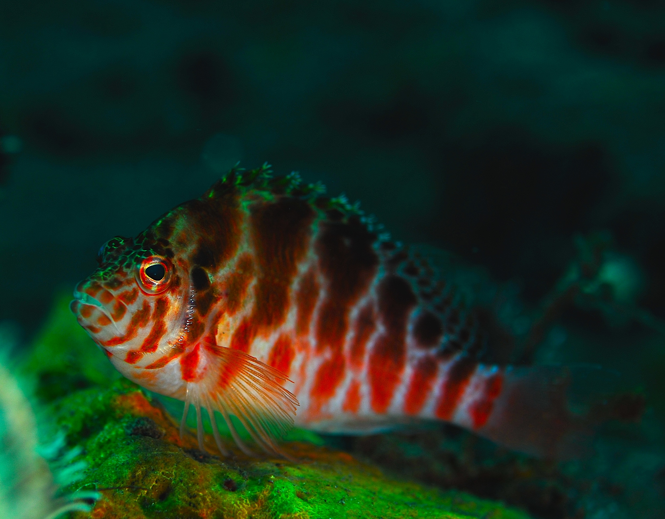 Cirrhitichthys oxycephaluspixy hawkfish